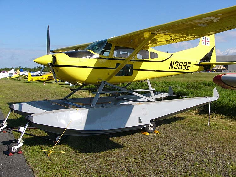 Cessna 185F (N369E) on amphibious floats